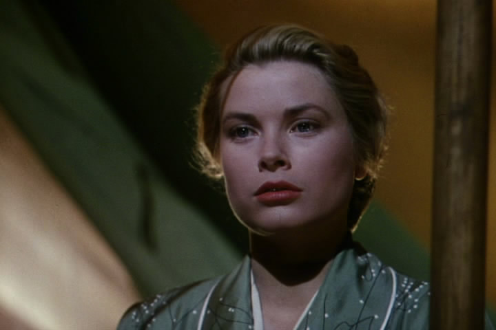 Screenshot of Grace Kelly from the trailer of the film Mogambo